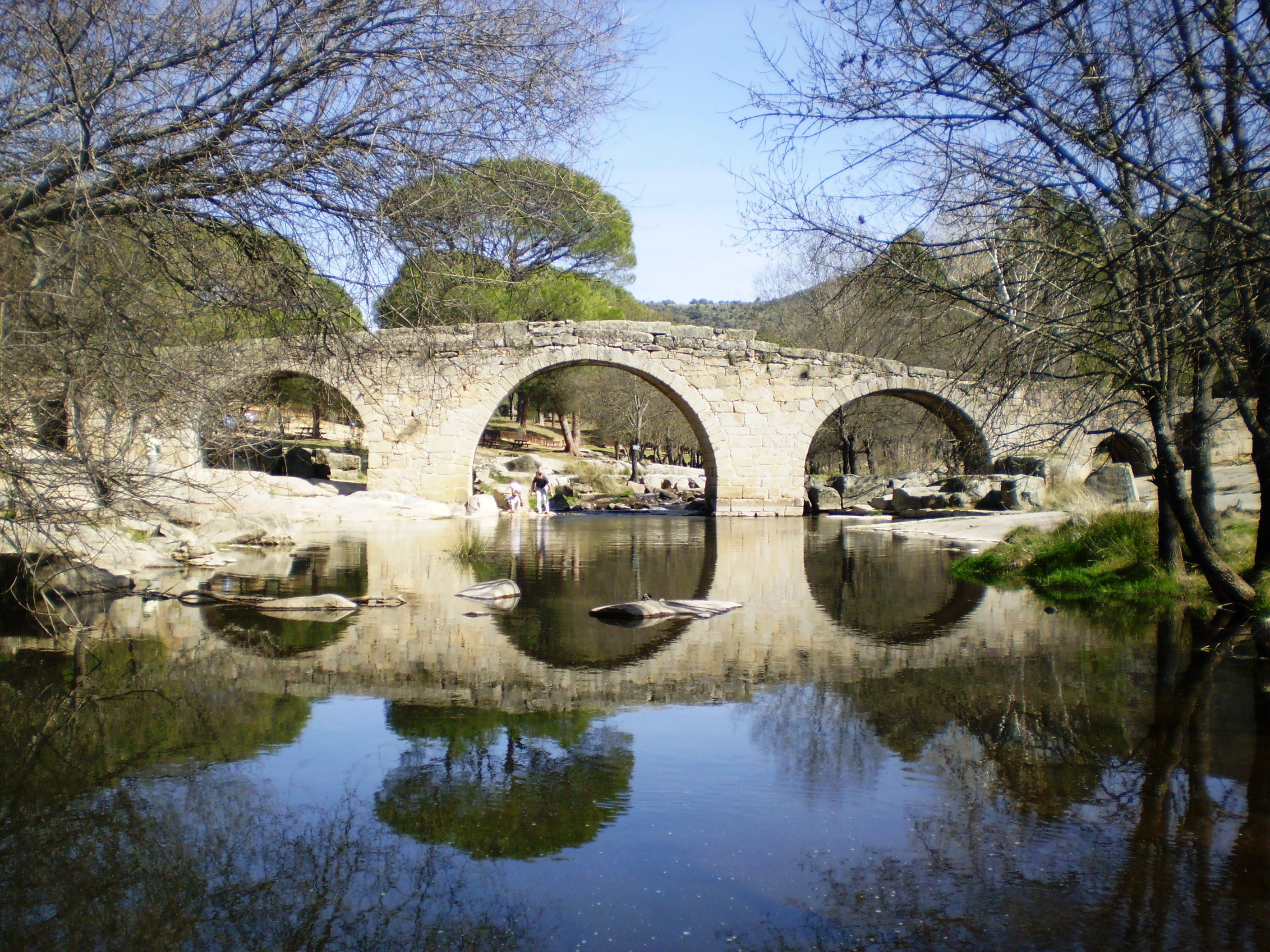 Mocha Bridge over Cofio River. Valdemaqueda. Community of Madrid, Spain